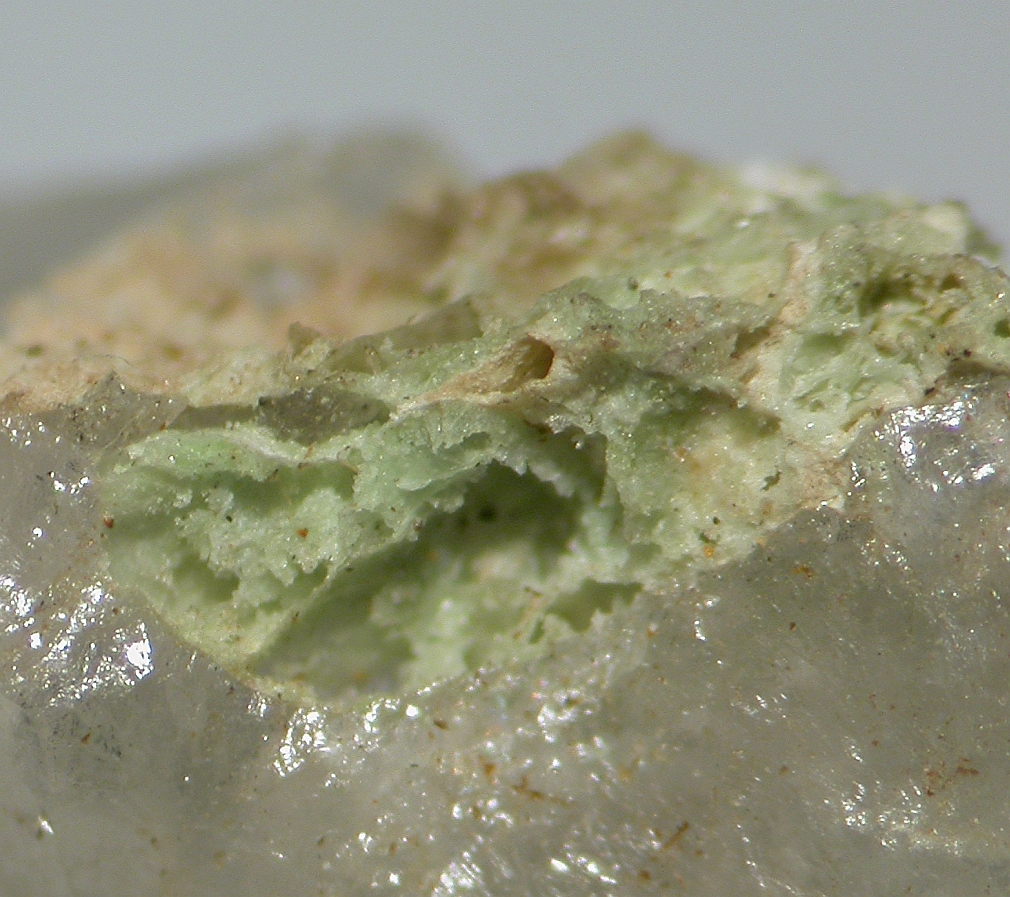 Zaïrite Locality: Eta-Etu, Kivu, Democratic Republic of Congo (Zaïre) Field of view 6 mm. Specimen and photo Leon Hupperichs.